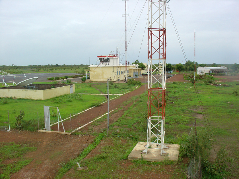 Tambacounda Senegal, View of the airport terminal, telecommunication antennas and towers.